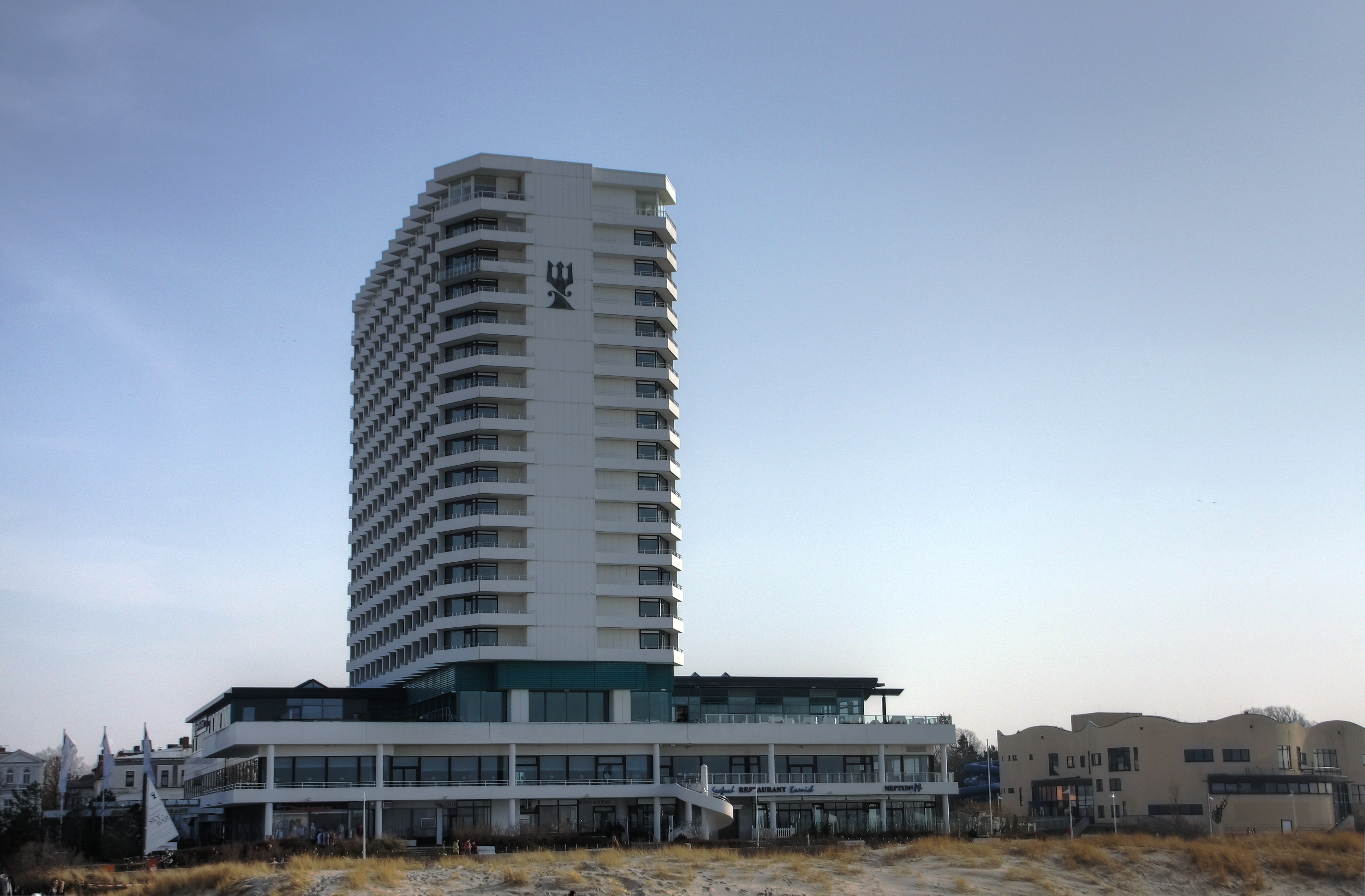 Hotel Neptun in Warnemünde; photographed from the beach.